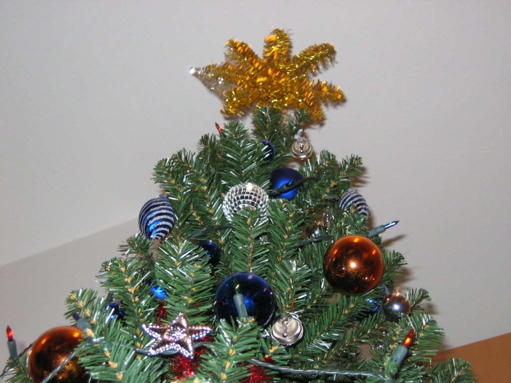 The top of a Christmas tree in a Finnish home.